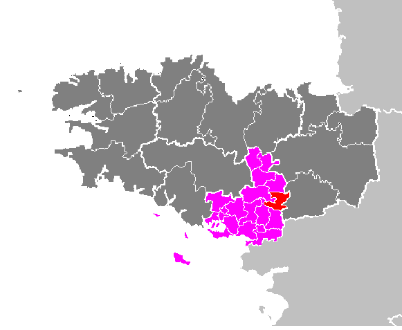 Maps of arrondissements and cantons of France: Arrondissement de Vannes - Canton de la Gacilly.PNG